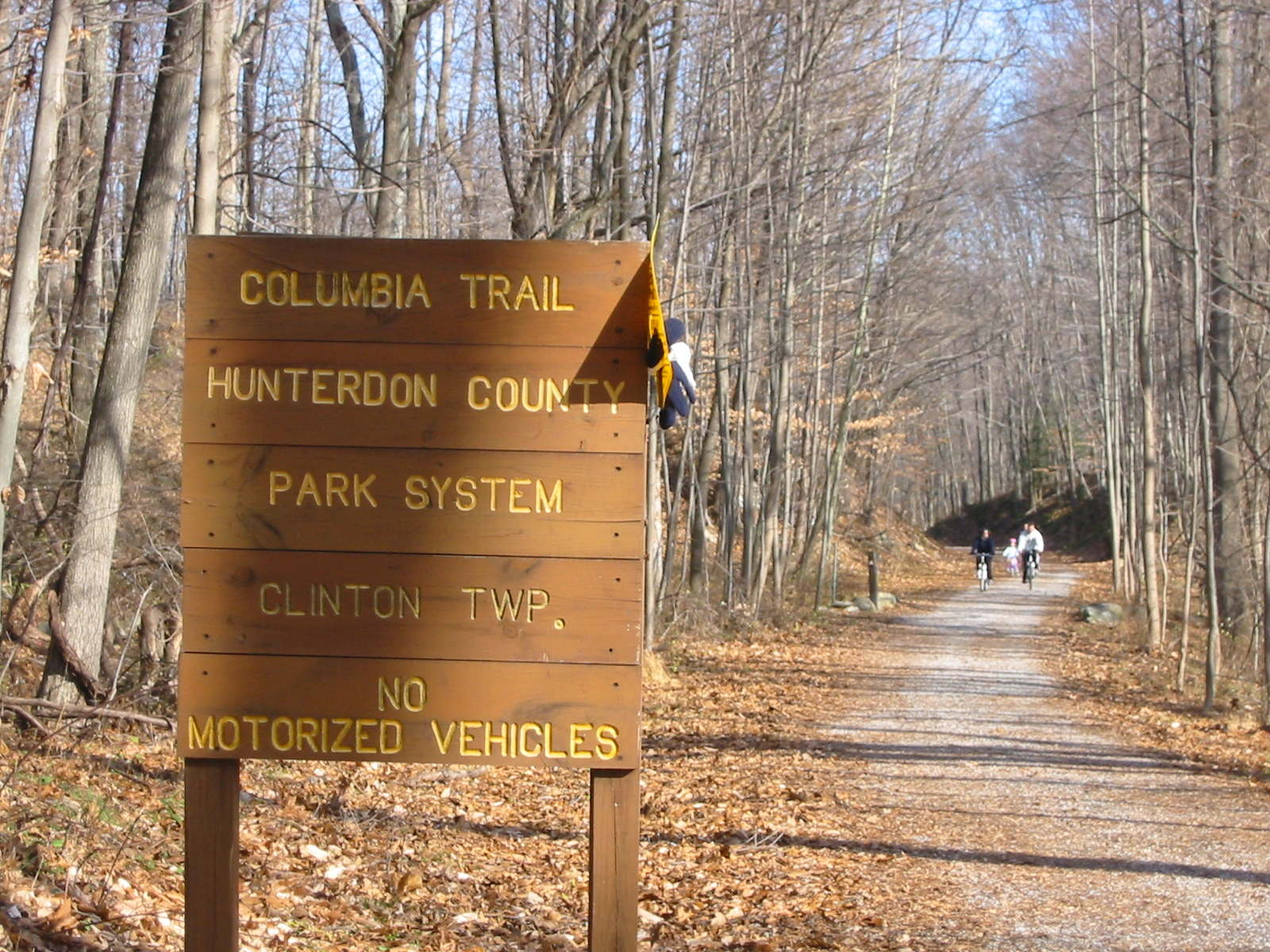 I took this picture myself and grant Wikipedia full permission to use it as a public domain photo.